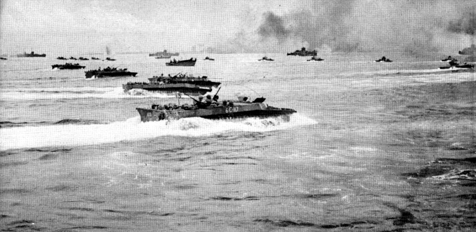 U.S. Navy LVTs approach Peleliu on 15 September 1944.